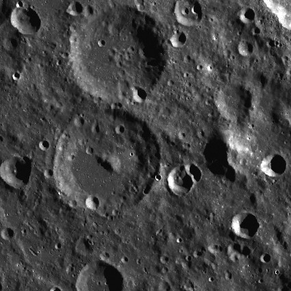 LROC . Leavitt at center, satellite Z on top. The prominent peak seen at right is part of eastern South Pole - Aitken Basin inner ring.